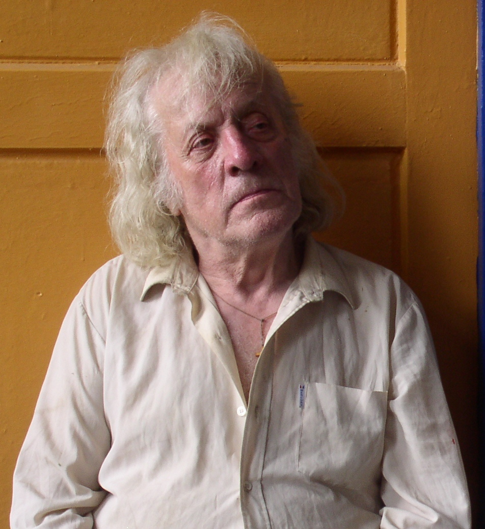 Mikhail Chernyi